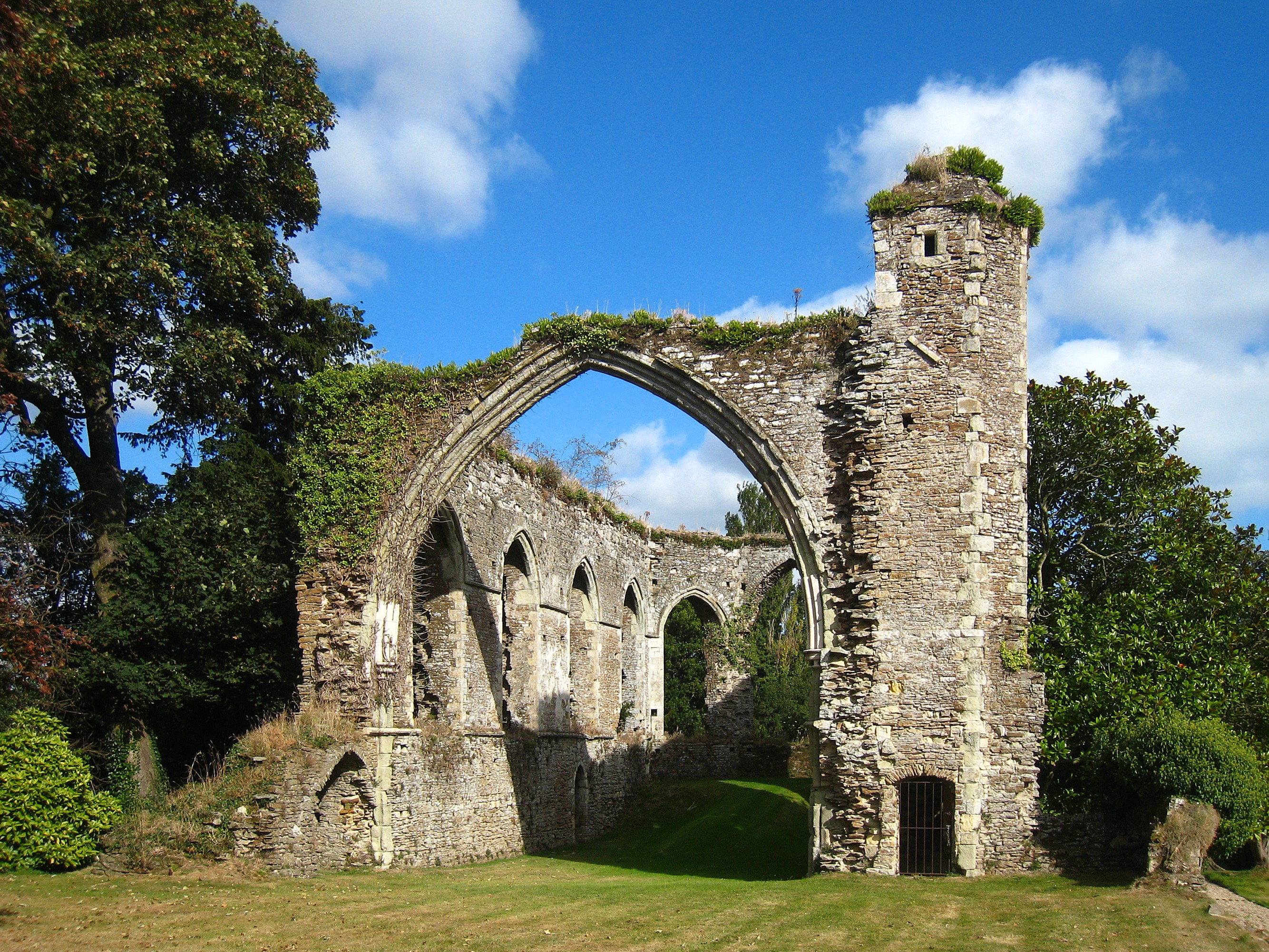 The Ruins Of The Church Of Grey Friars Monastery In The Grounds Of Grey Friars Wikidata has entry Q17535103 with data related to this item.